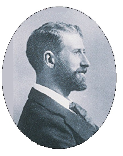 1906 Francis Edwards Liberal Radnor 82-95 00-J10 D10-18